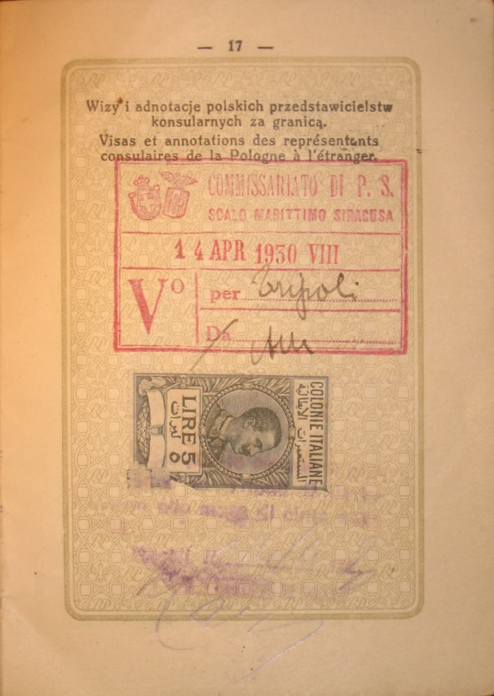 Polish citizien's passport of 1930 - page with visa (issued in Syracuse, Sicily) and border-control stamp of Italian colonial office (Tripoli, Libya).